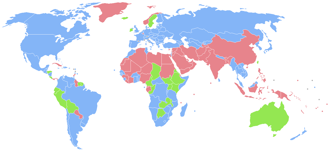 Sex_ratio_total_population.gif but with red and blue interchanged, as requested at